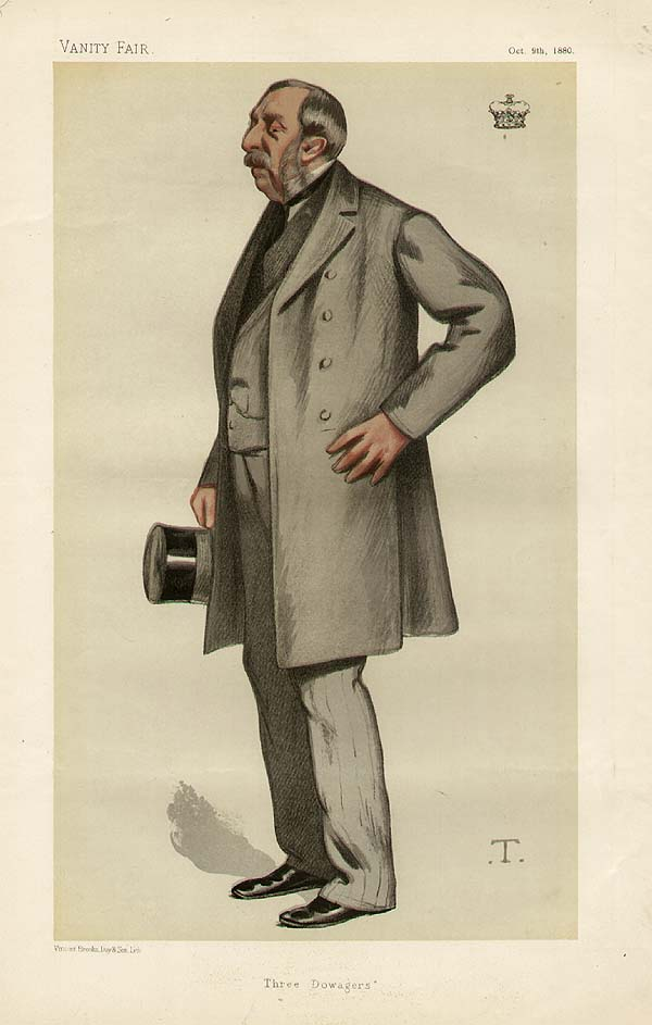 Caricature of Ernest Brudenell-Bruce, 3rd Marquess of Ailesbury. Caption read "Three Dowagers".